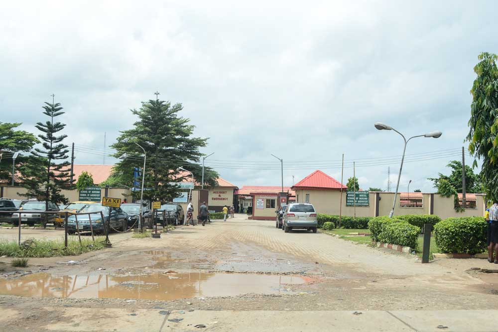 Isheri Igando road